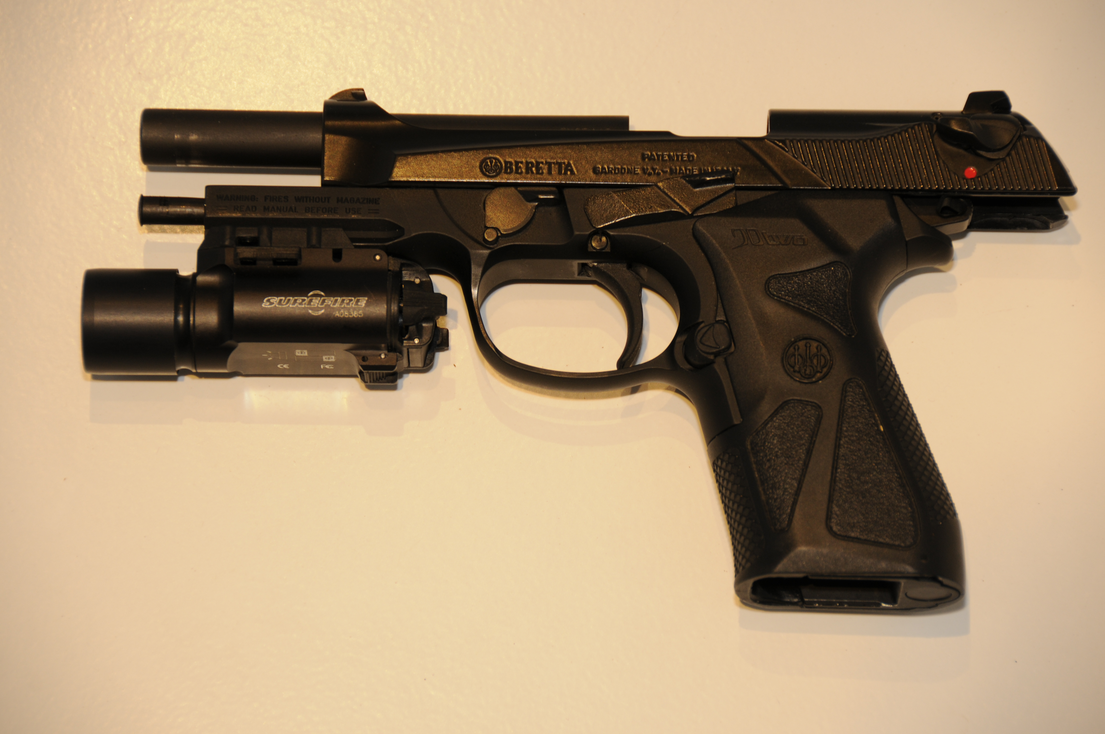 My Beretta 90TWO fitted with a SureFire x300 flashlight